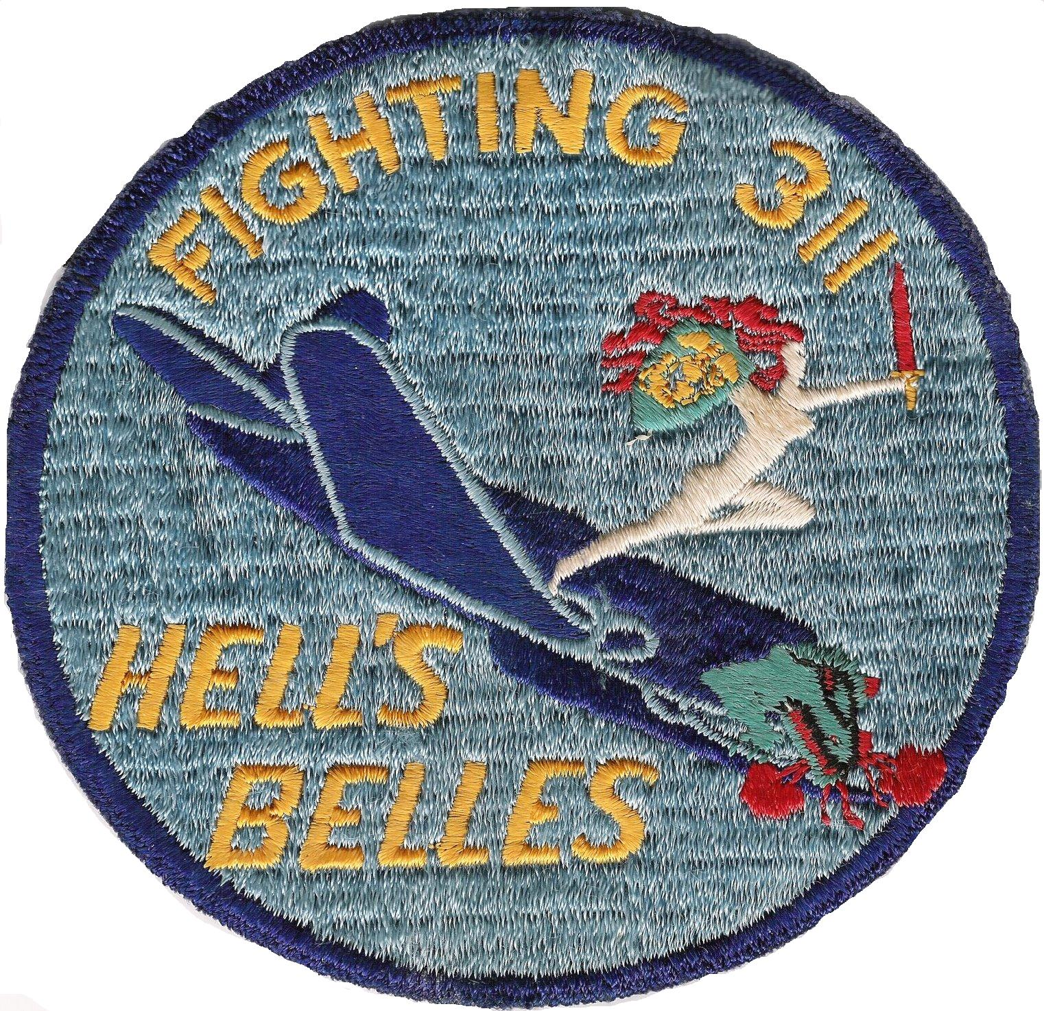 Author: BQuad Source: Scanned image of my father's squadron patch.